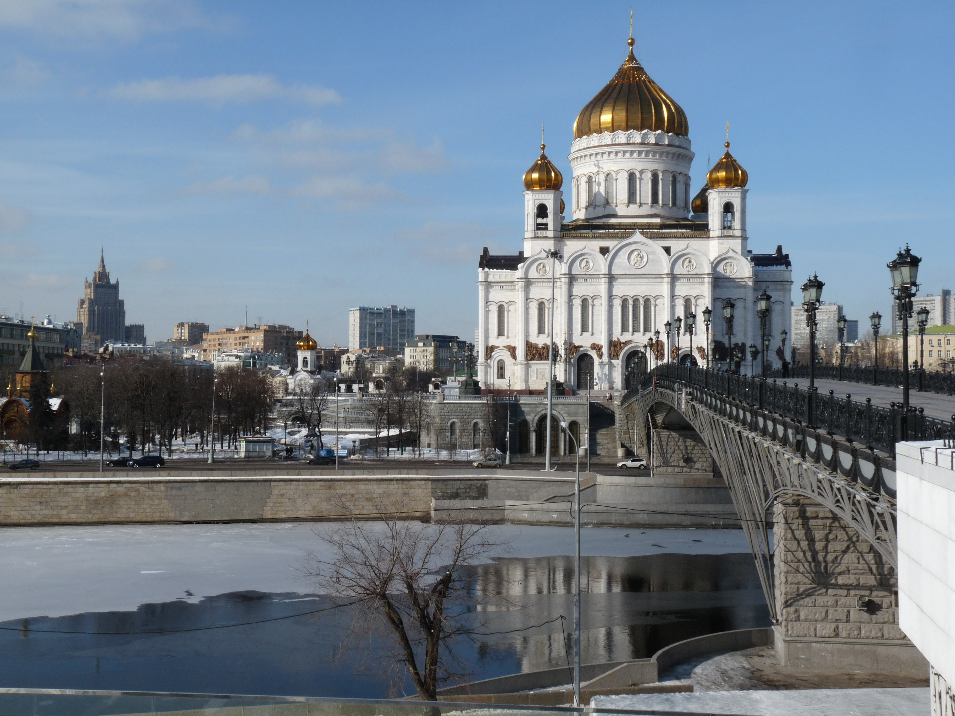 Cathedral of Christ the Saviour in Moscow. You can also see the river, that's a bit frozen, and one of the 7 stalinistic era's skyscrapers on the background (building of Ministry of Foreign Affairs).